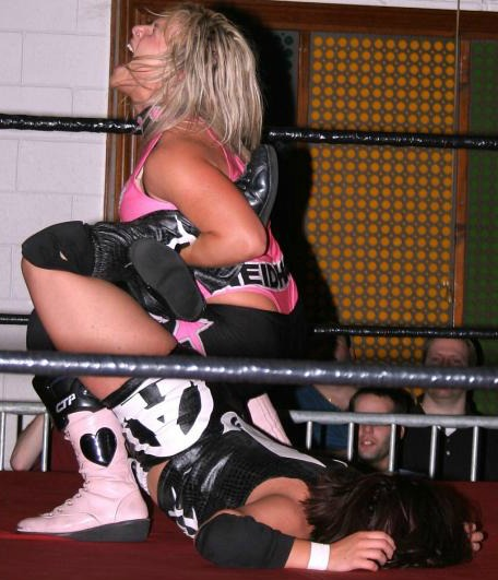 Nattie Neidhart using her sharpshooter submission hold on Ariel at Shimmer Women Athletes